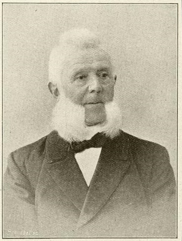 G.F Callenbach 1833 - 1916 uitgever